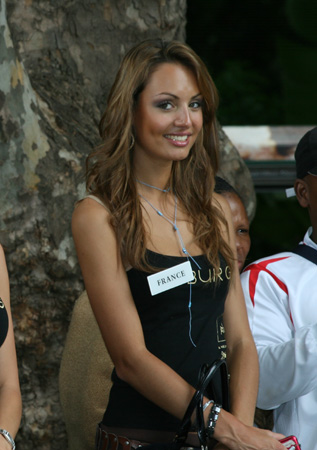 Laura Tanguy, second runner-up of Miss France 2008, during Miss World 08 in Johannesburg